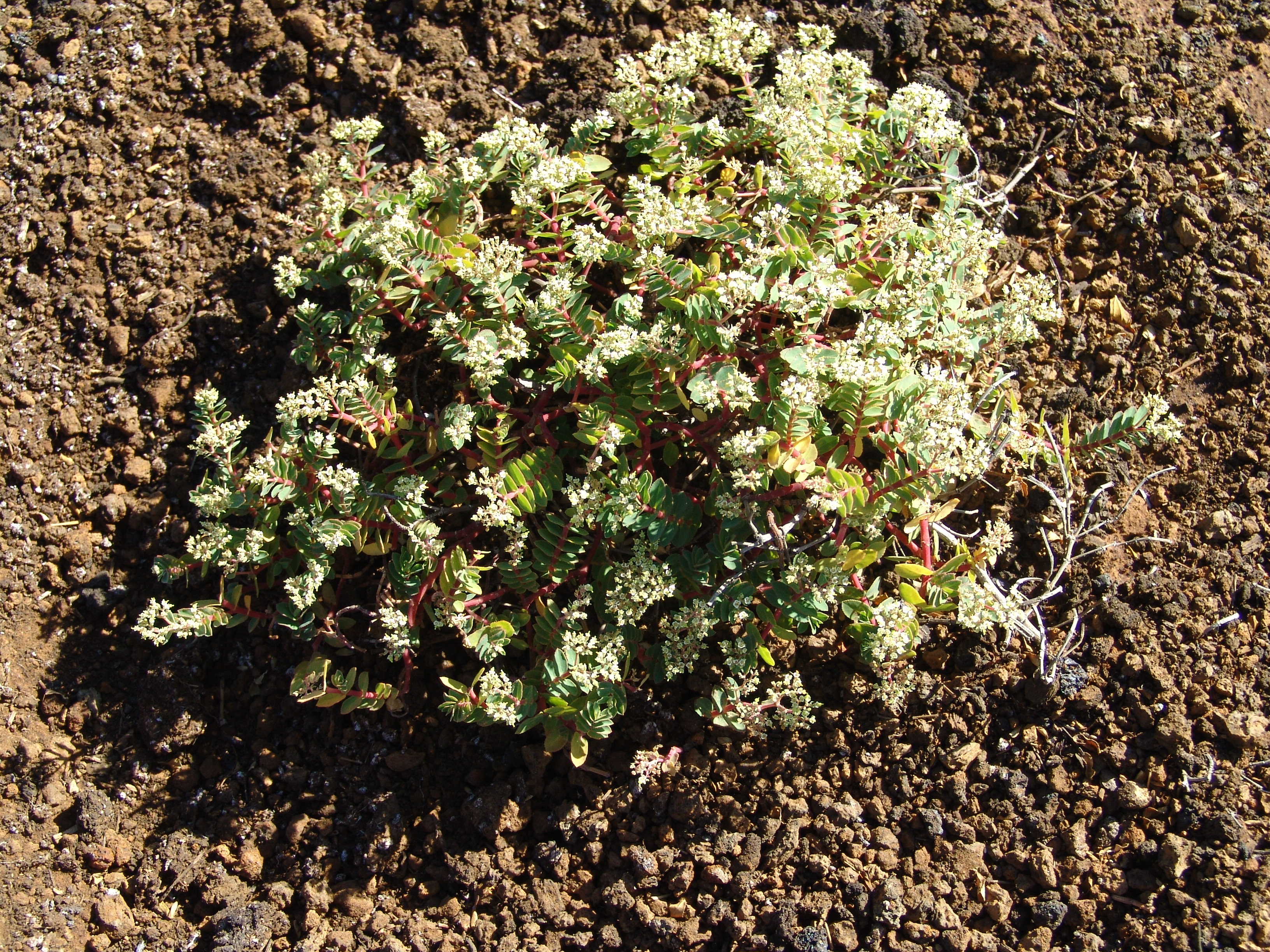 Euphorbia origanoides (Ascension Spurge), Ascension endemic Plant. IUCN status-endangered. Specimens being grown by Ascension Island Conservation department.